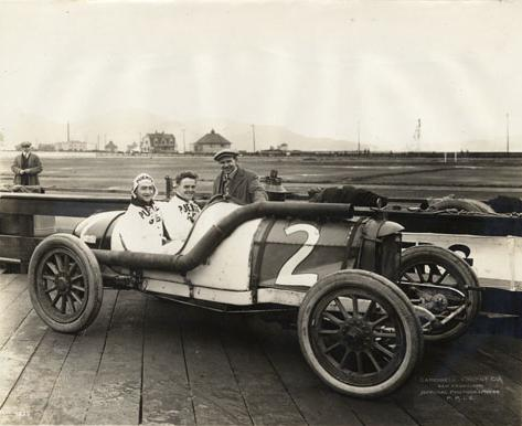 Tom Alley poses in his Duesenberg before either the 1915 American Grand Prize and Vanderbilt Cup in San Francisco.